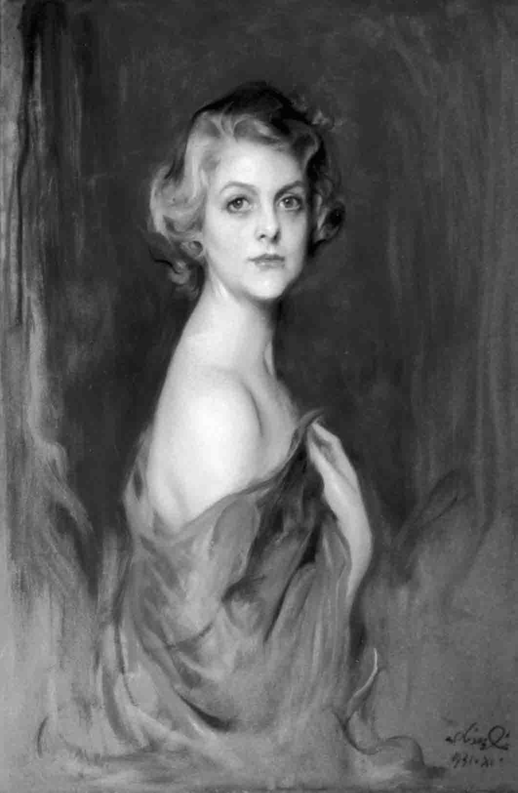 Portrait of Mrs. Theodore P. Grosvenor (née Anita Strawbridge, 1901-1987)